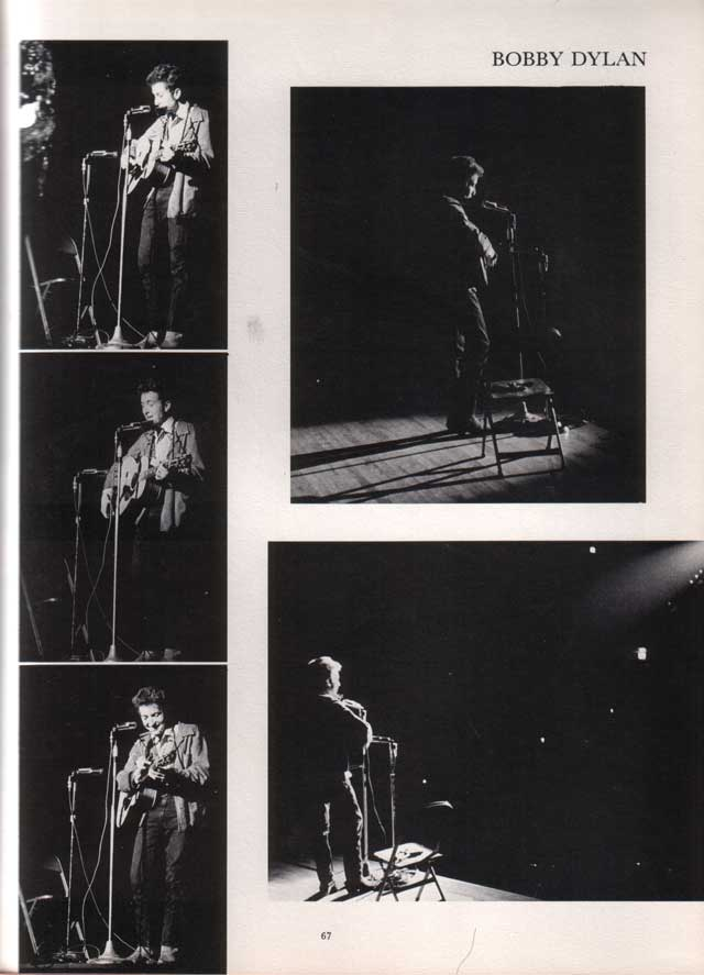 Bob Dylan performing at St. Lawrence University in New York.